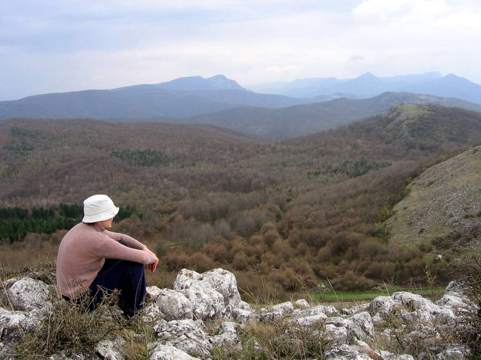 Valeriu Catargiu